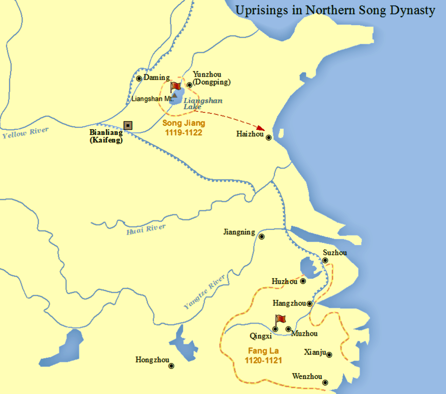 Map showing major rebellions during Emperor Huizong's reign of Northern Song dynasty, including Song Jiang and Fang La's uprisings.